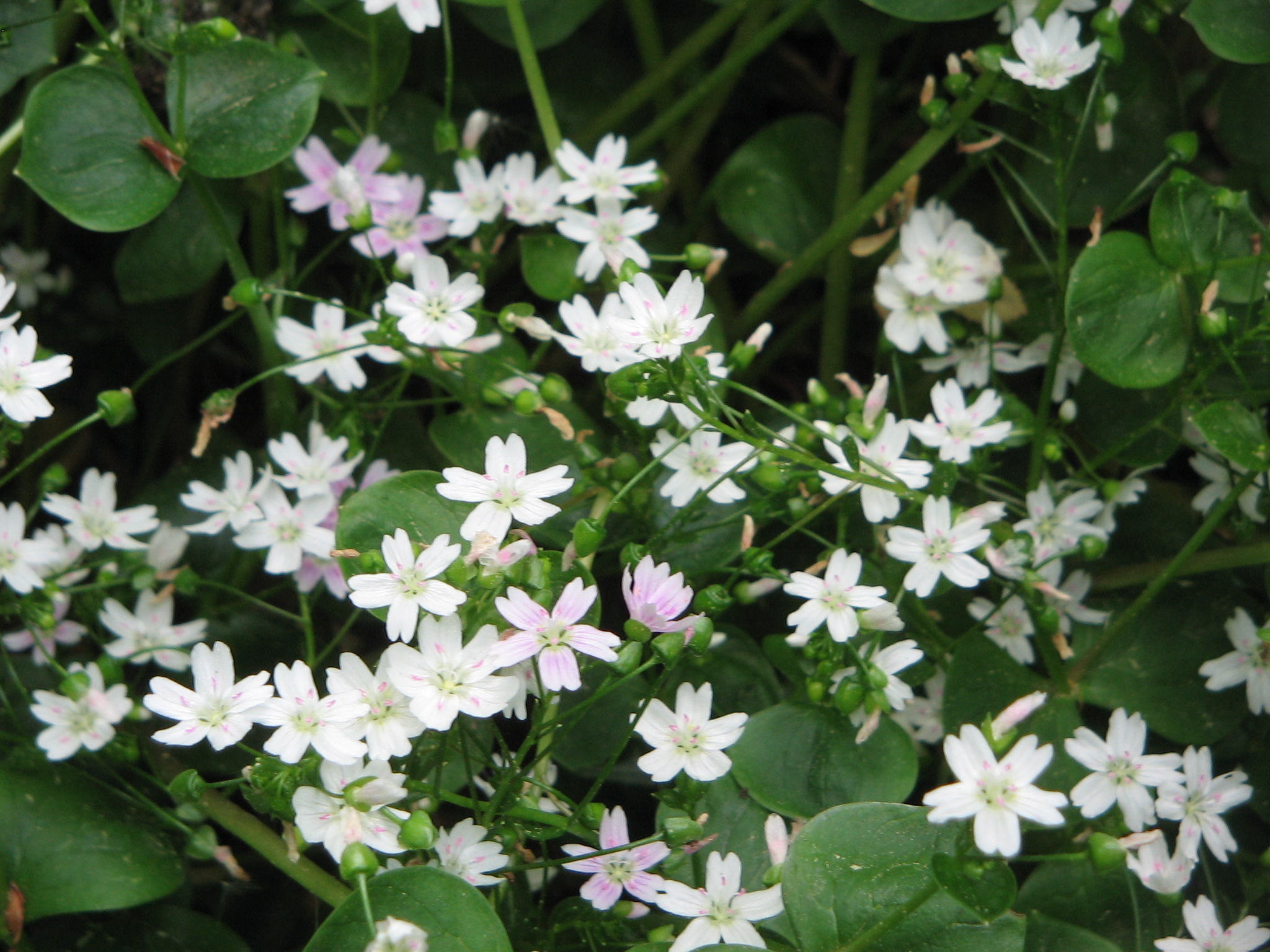 Claytonia sibirica